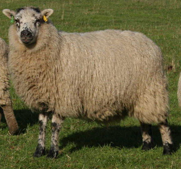 A single Shetland–Hebridean lamb about six months old. Sired by white Shetland ram out of Hebridean ewes.